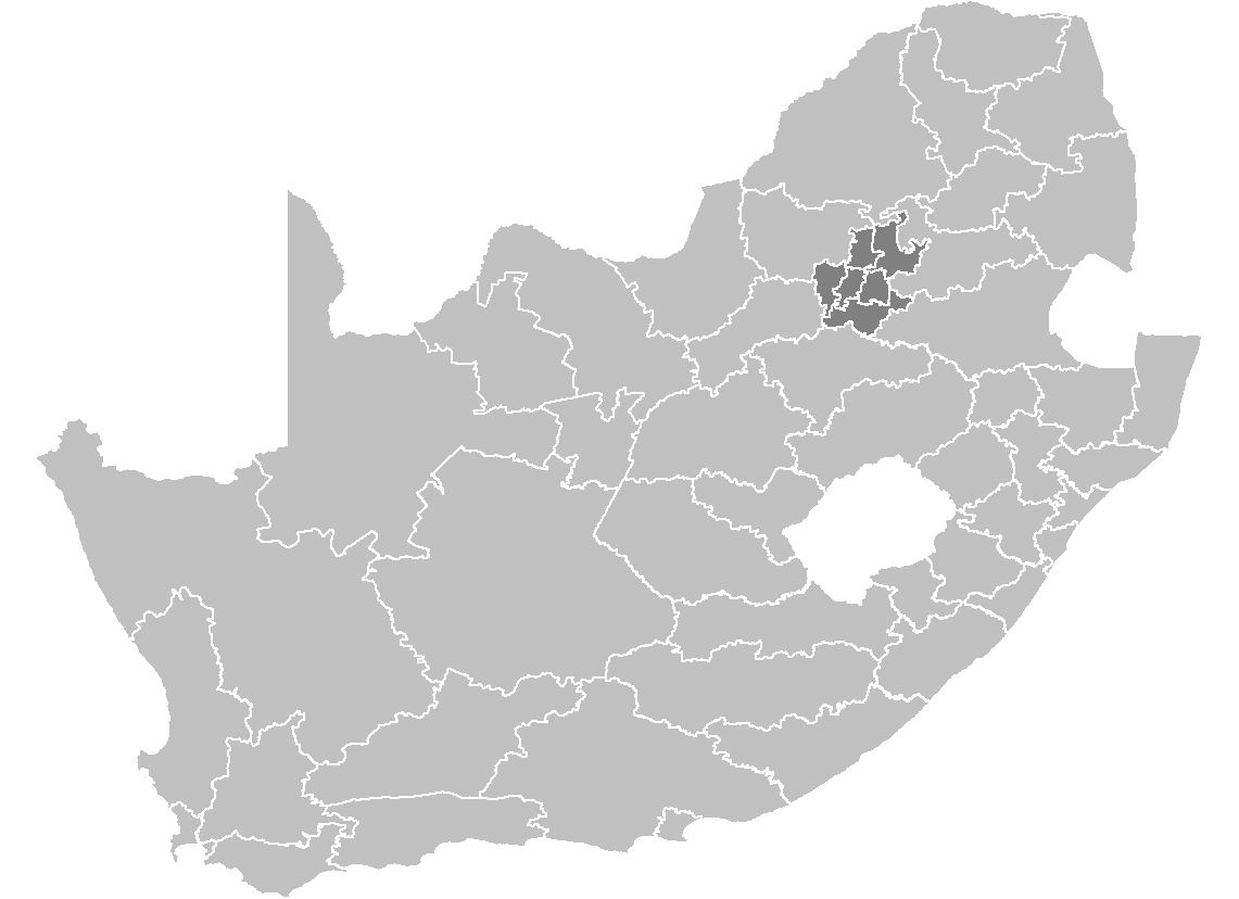 Map showing the Districts within Gauteng.